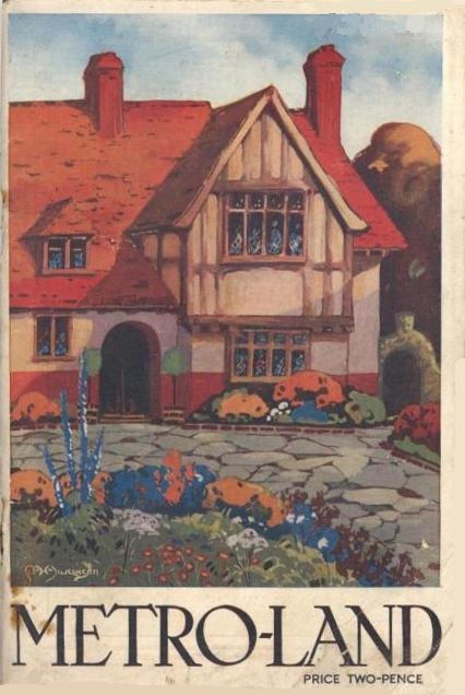 Metro-Land booklet were published annually from 1915-32 by London's Metropolitan Railway. This is the cover of the 1921 edition, which promoted housing in the area served by the railway.